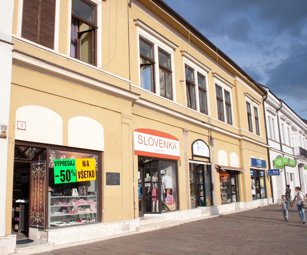 Main Street in Kosice